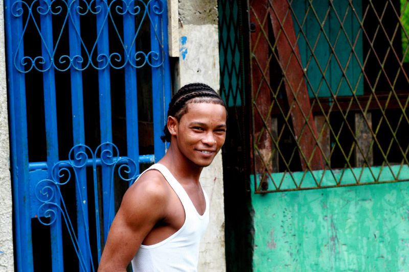 hairstyle like mine english-speaking creoles in bluefields, nicaragua